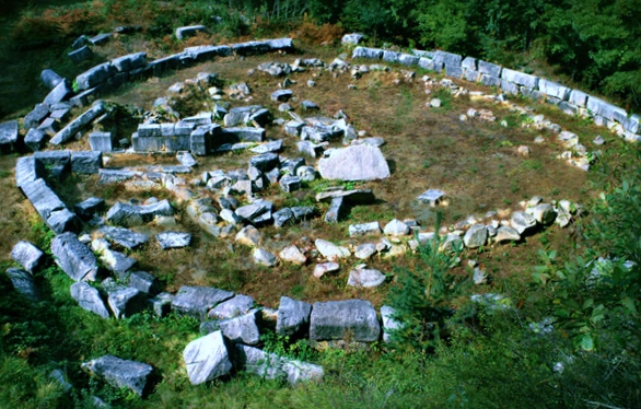 Mishova niva site Strandzha BG